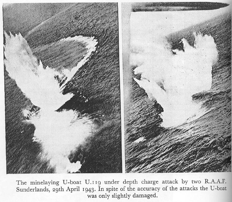 The minelaying U-boat U-119 under depth charge attack by two R.A.A.F. Sunderlands, 29th April 1943. In spite of the accuracy of the attacks the U-boat was only slightly damaged.